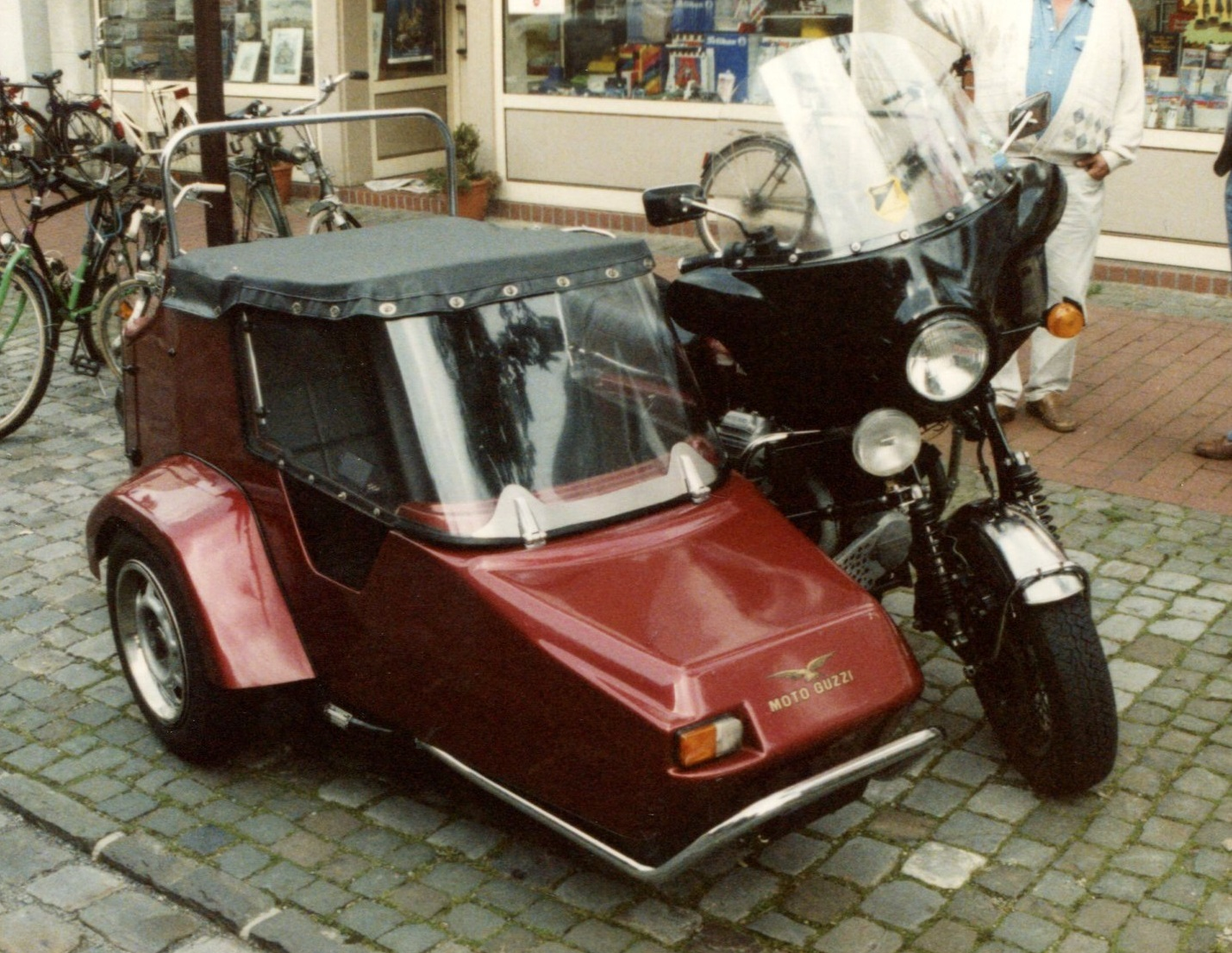 A sidecar with a closed cabin